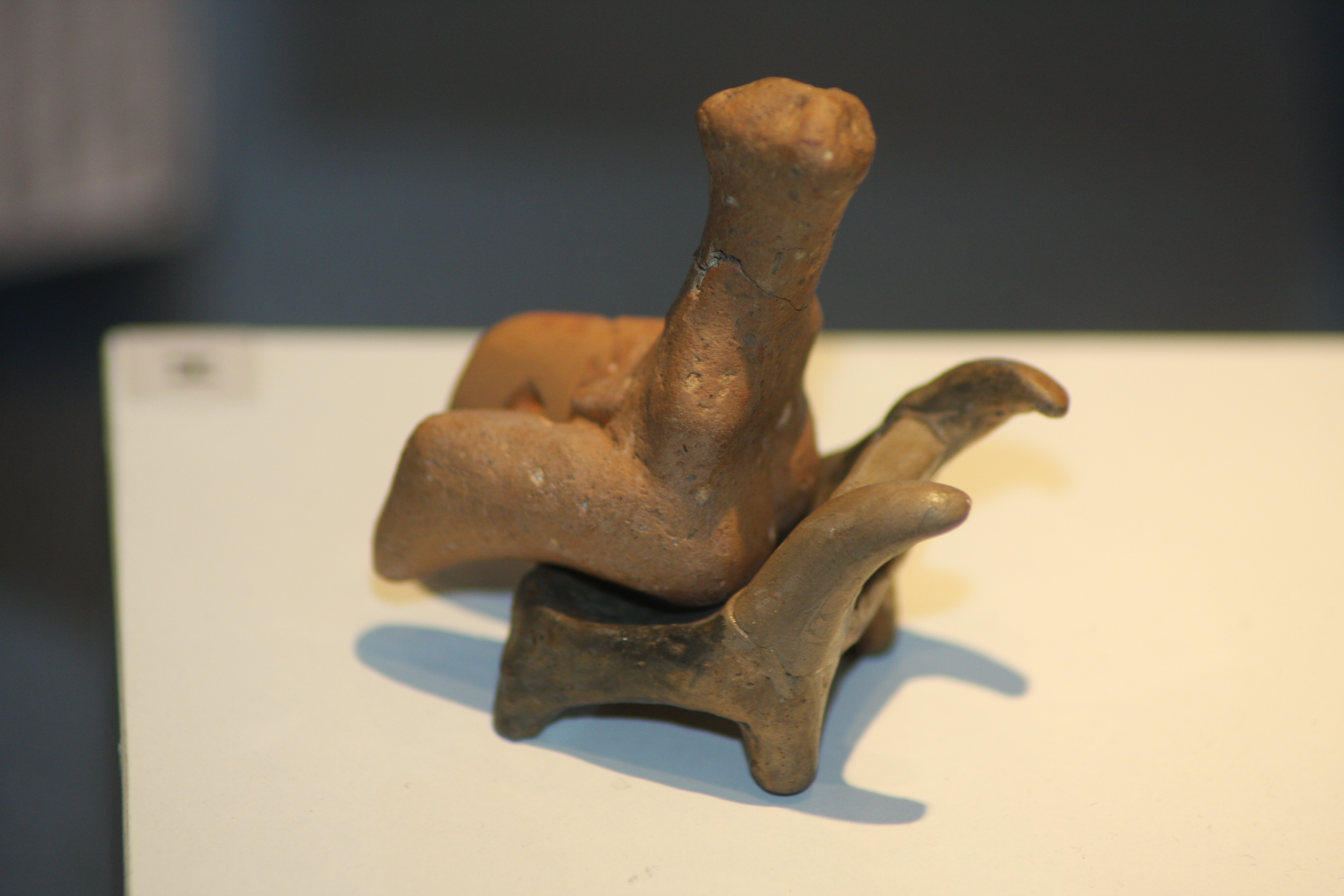 Neolithic Chair from 4750-4700BC Dicovered in Târpești Modern day Romania, and exposed in Piatra Neamt Museum.